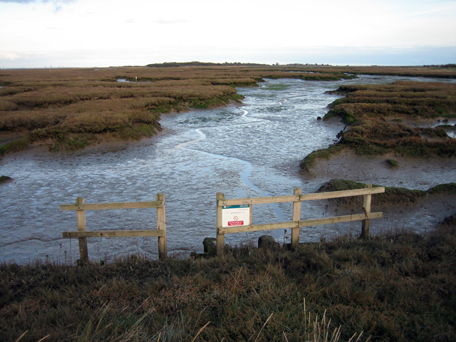 Looking north-east across salt-marshes This was the view on a late autumn late afternoon. In the middle distance, slightly left of centre is part of Skipper's Island Nature Reserve and on the distant skyline, to the left, are the silhouettes of cranes at Harwich/Felixstowe container ports.